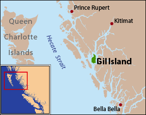 Gil Island